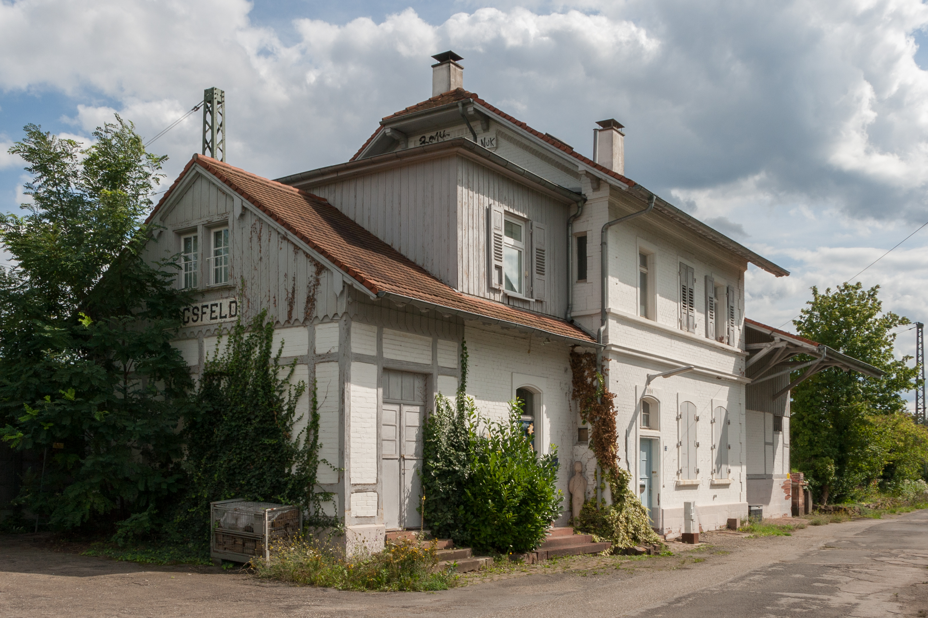 Former entrance hall of the train station of Karlsruhe-Hagsfeld.